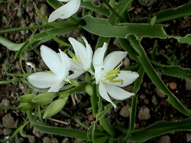 Chlorophytum tuberosum (Edible Chlorophytum)